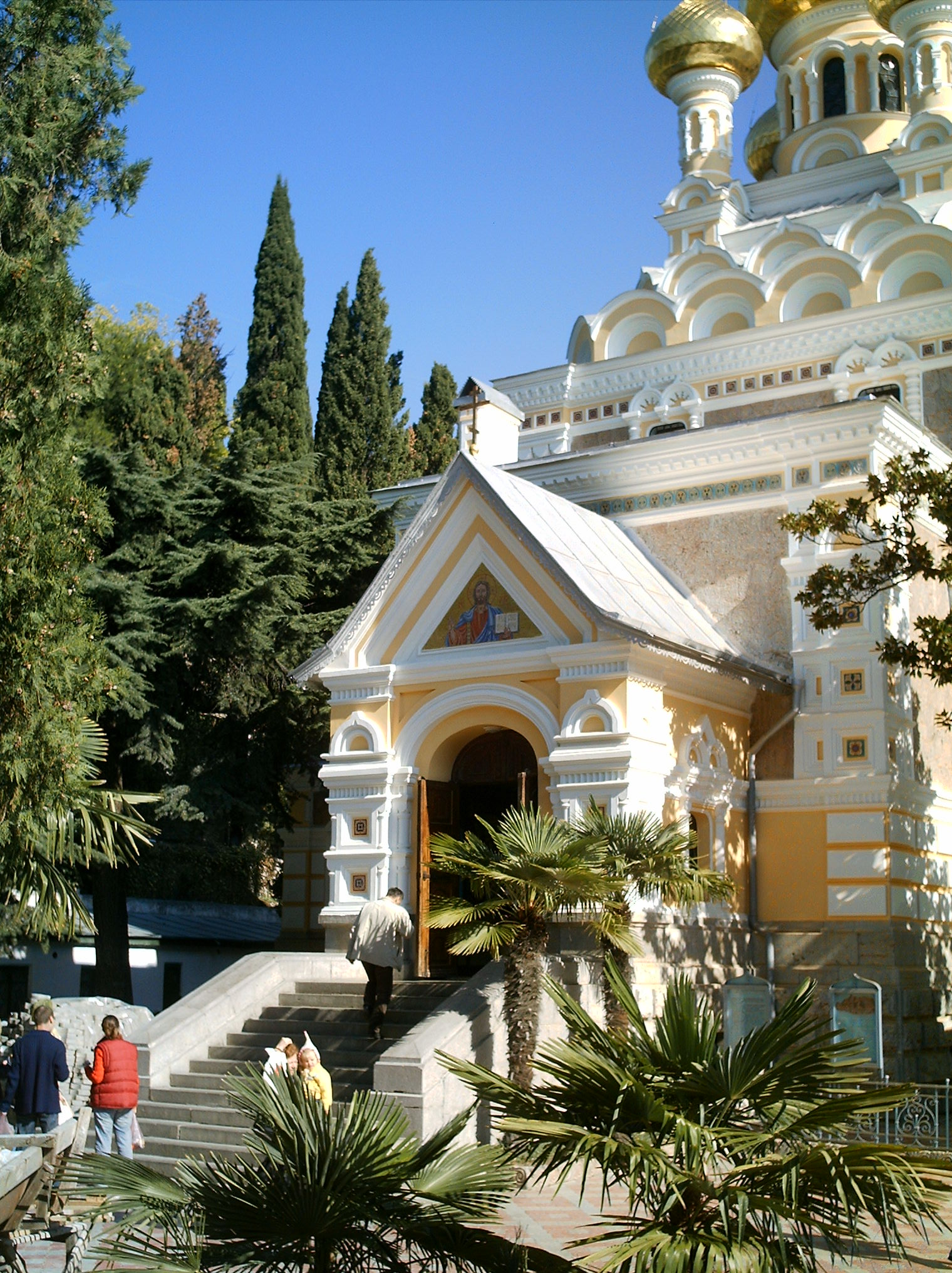 Entrance of the Alexander-Nevsky-Cathedral in Yalta (Ukraine)